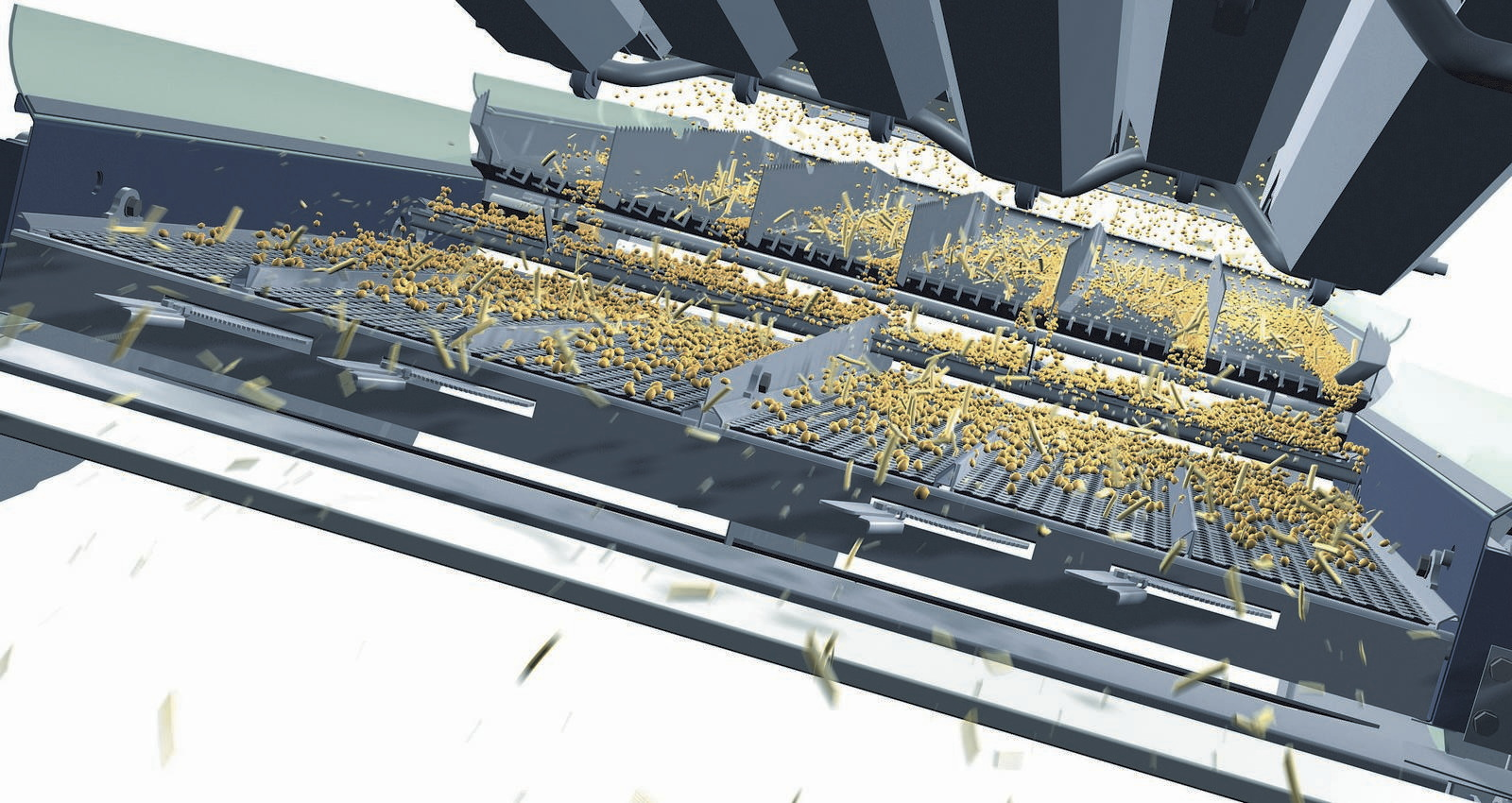 Illustration to show how the OptiFanSystem (of New Holland CSX7000 combines) works